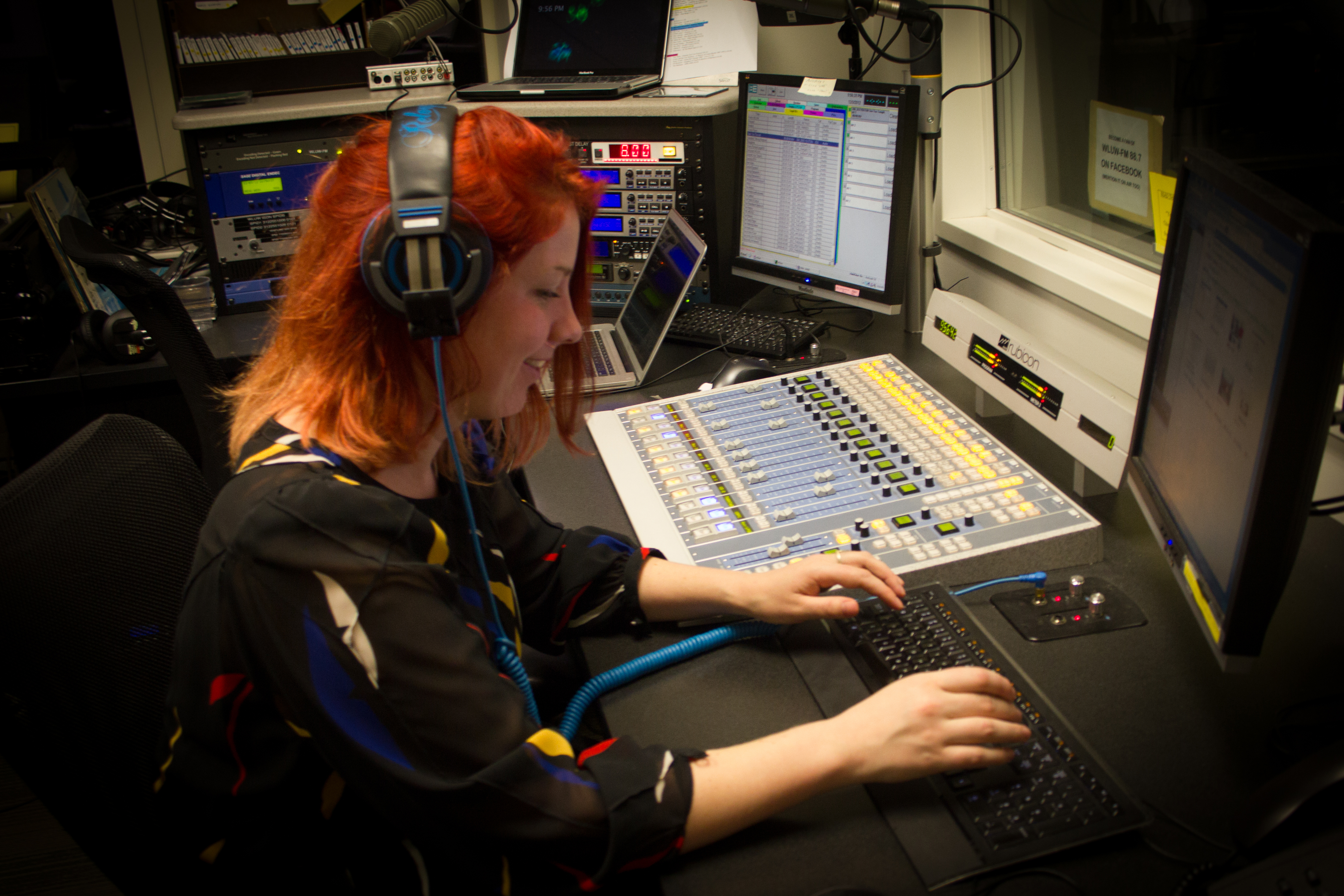 PRE-GLI.TC/H Radioshow in ChicagoGLI.TC/H Radioshow in Chicago ben ∞♥◈♘♫★ @mikrosopht @djqbot always glitch… @NBriz @jonsatrom @rosa_menkman It has been many many years since I sat behind a board and mixed sounds but yesterday mikrosopht and the GLI.TC/H/BOTS were invited to do a 2 hour long radioshow over at the Loyola University of Chicago and I sat down behind the board (and the computer - as it turns out a lot of things are done with computers these days, even on the radio ; ) And finally I did the DJRosa thing again. ha! So much fun! We played laserdisks, stAllio!, tv-pirate LPs, cds, some Ragga induced Knalpot, Nick did some max patching of Bach, I sang some three channel opera (sorry about that), mikrosopht and jon popped some cat-balloons, Mouse on Mars battled John Cage. Kurt Schwitters, Gijs gieskes and CC Hennix were underlined by NUMBERS.FM What a cluster ∞♥◈♘♫★